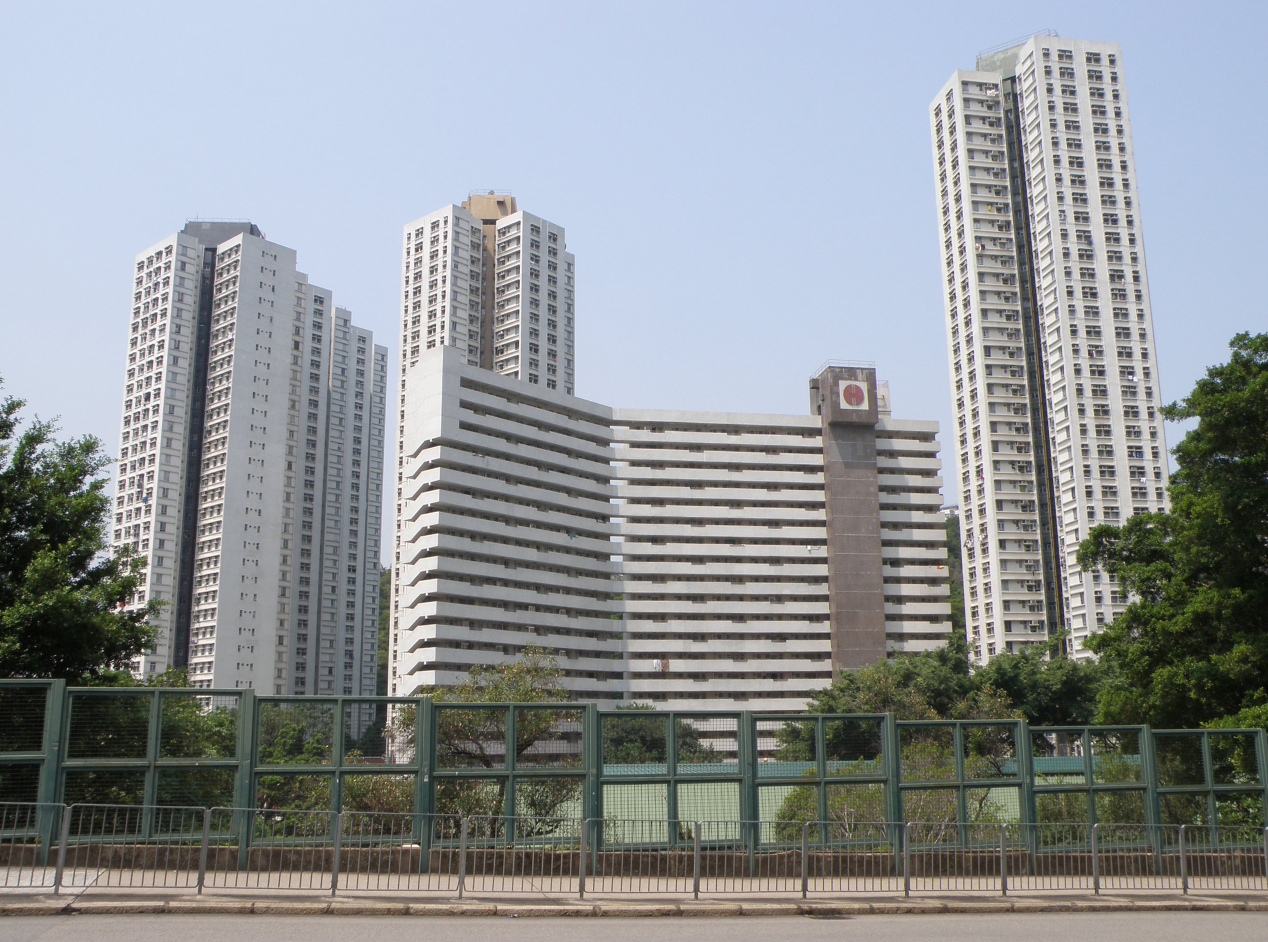 Cheung Wo Court in Kwun Tong, Hong Kong. Viewed from Hiu Kwong Street.